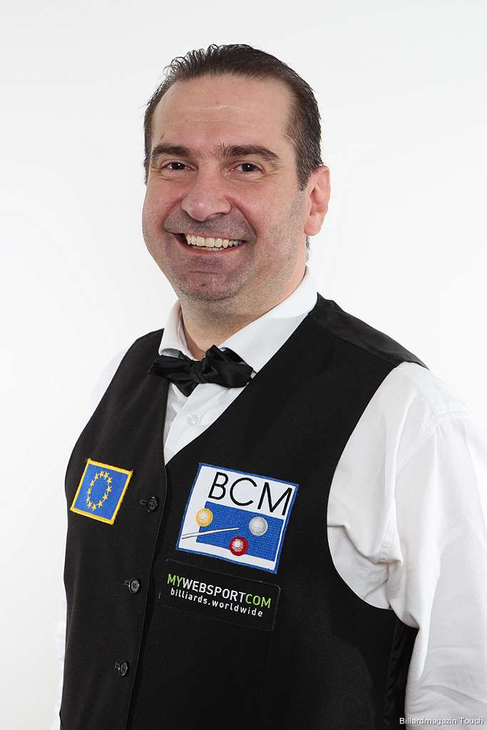 Christos Christodoulidis, german 3-cushion champion 2013.